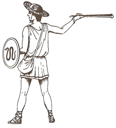 A Greek slinger from the Greco-Persian Wars. Date of illustration : before 1904.